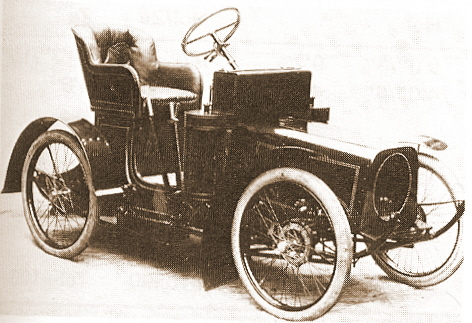 1906 Phoenix 6 hp Rundabout